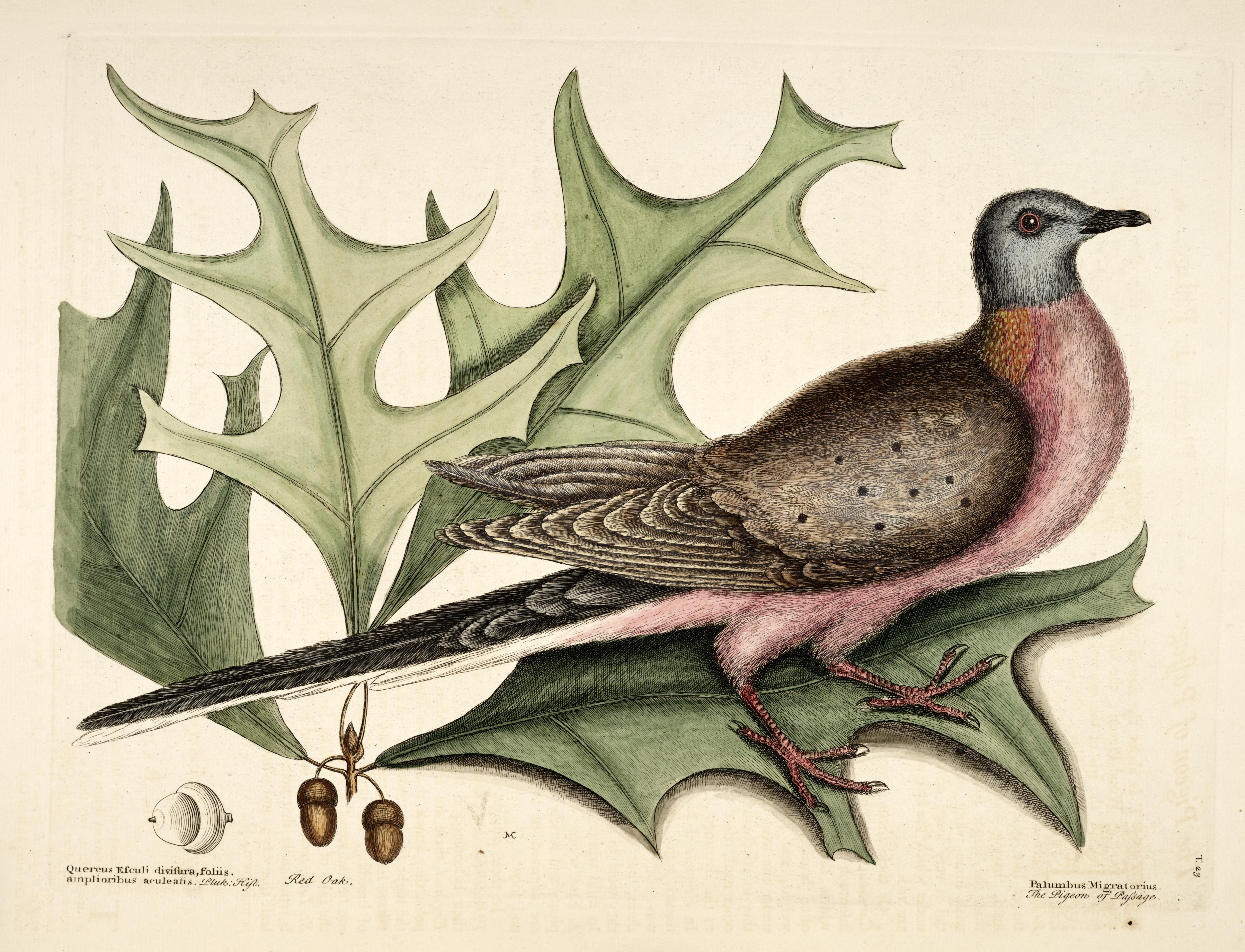 Plate 23 in Volume 1 of The Natural History of Carolina, Florida and Bahamas by Mark Catesby, George Edwards published in 1754. Also mentioned as Palumbus migratorius. Tree is red oak.